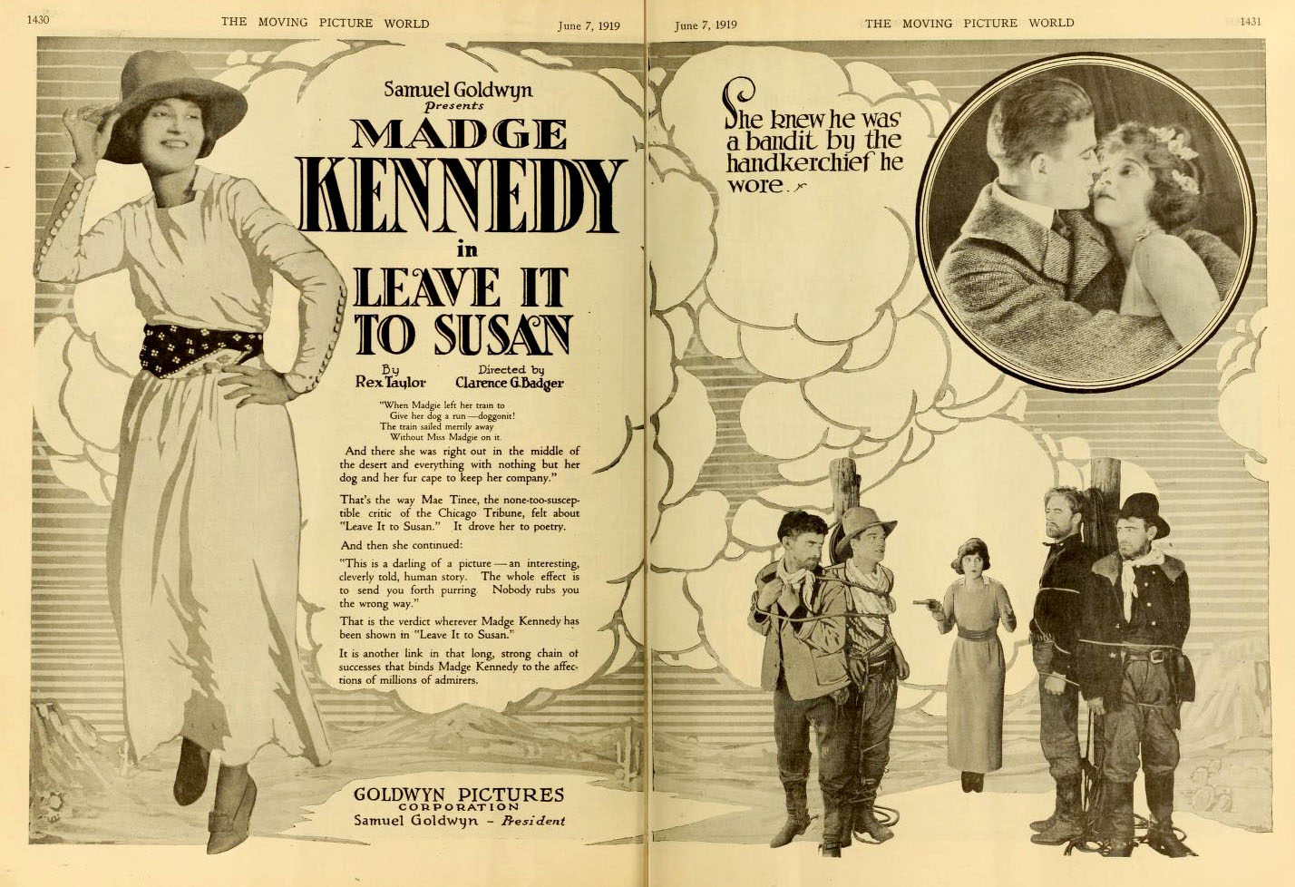 Advertisement for Leave it to Susan (1919), a film with Madge Kennedy, Moving Picture World, June 1919.